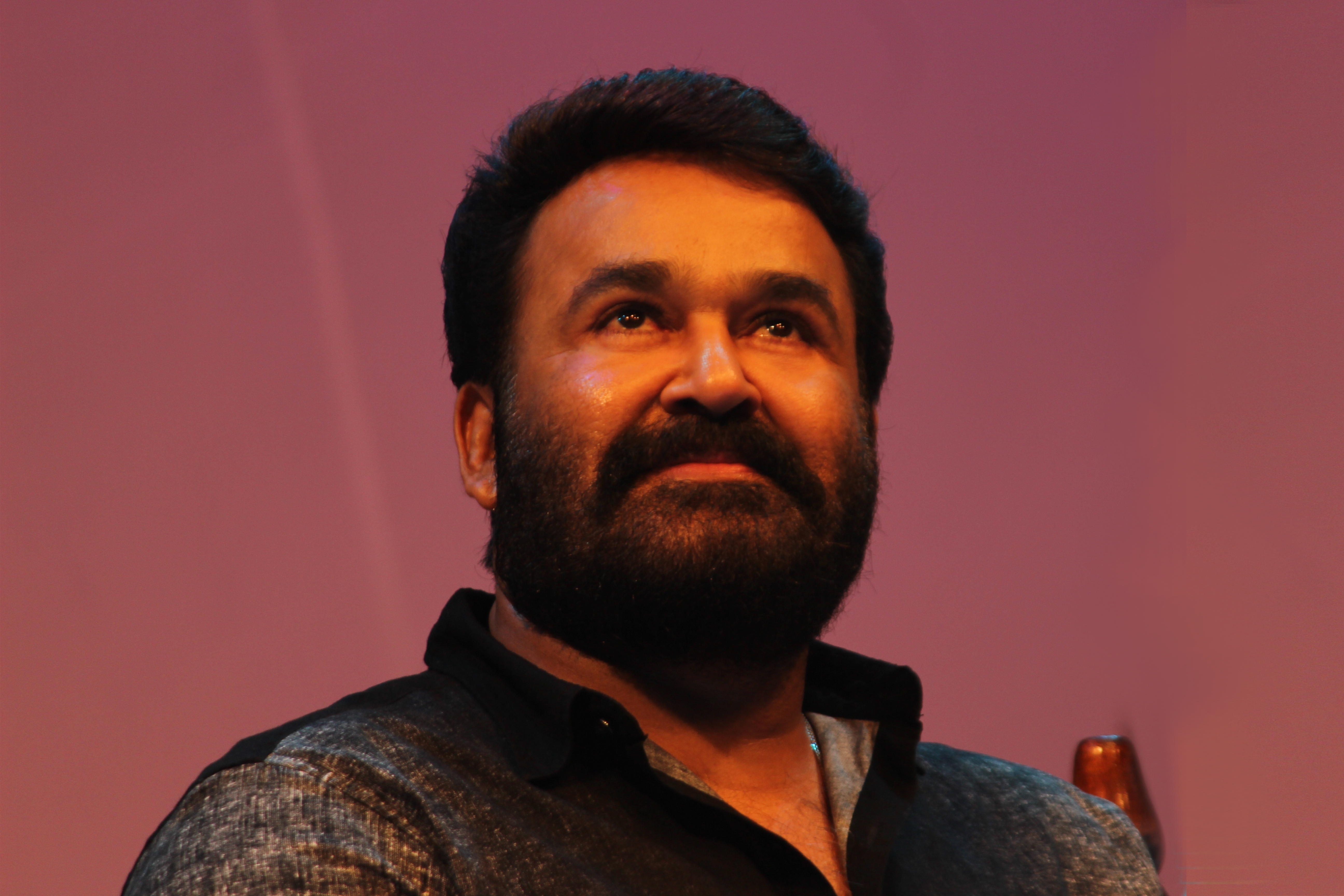 Mohanlal at en:48th Kerala State Film Awards ceremony